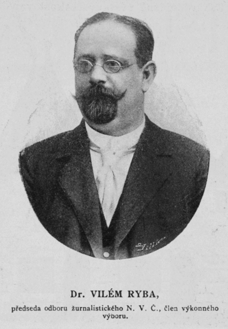 Portrait of Vilém Ryba (1849-1907), Czech journalist and politician. Shown as a chairman of a press committee of Czech & Slavonic Ethnographic Exhibition in Prague in 1895.